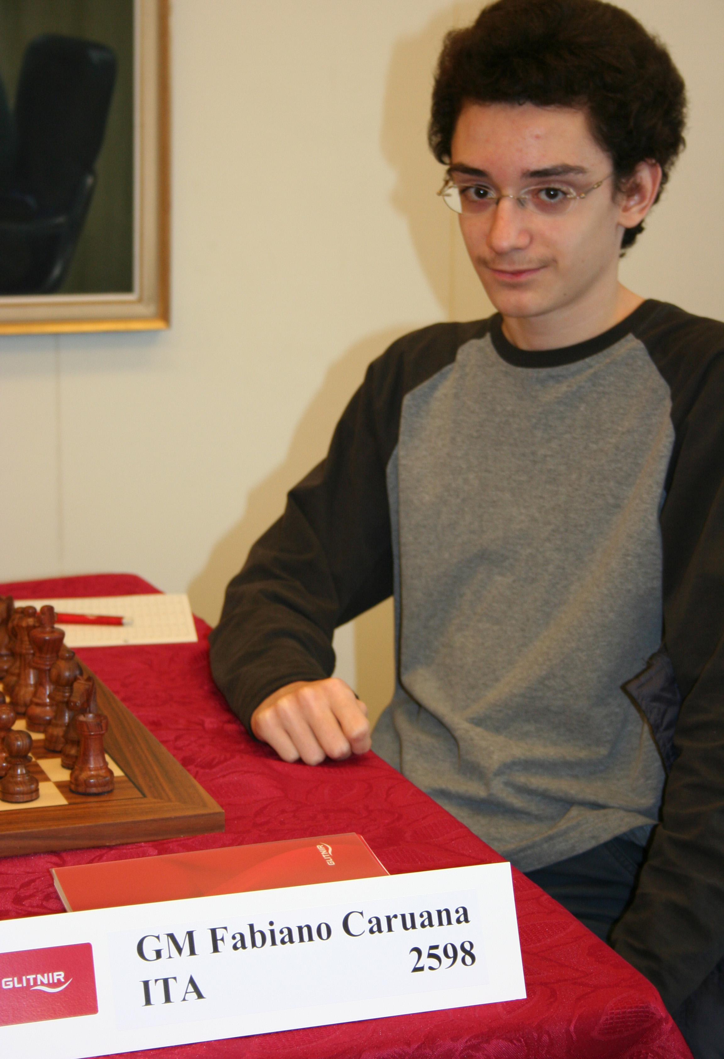 Grandmaster Fabiano Caruana is an American-born Italian currently living in Hungary.